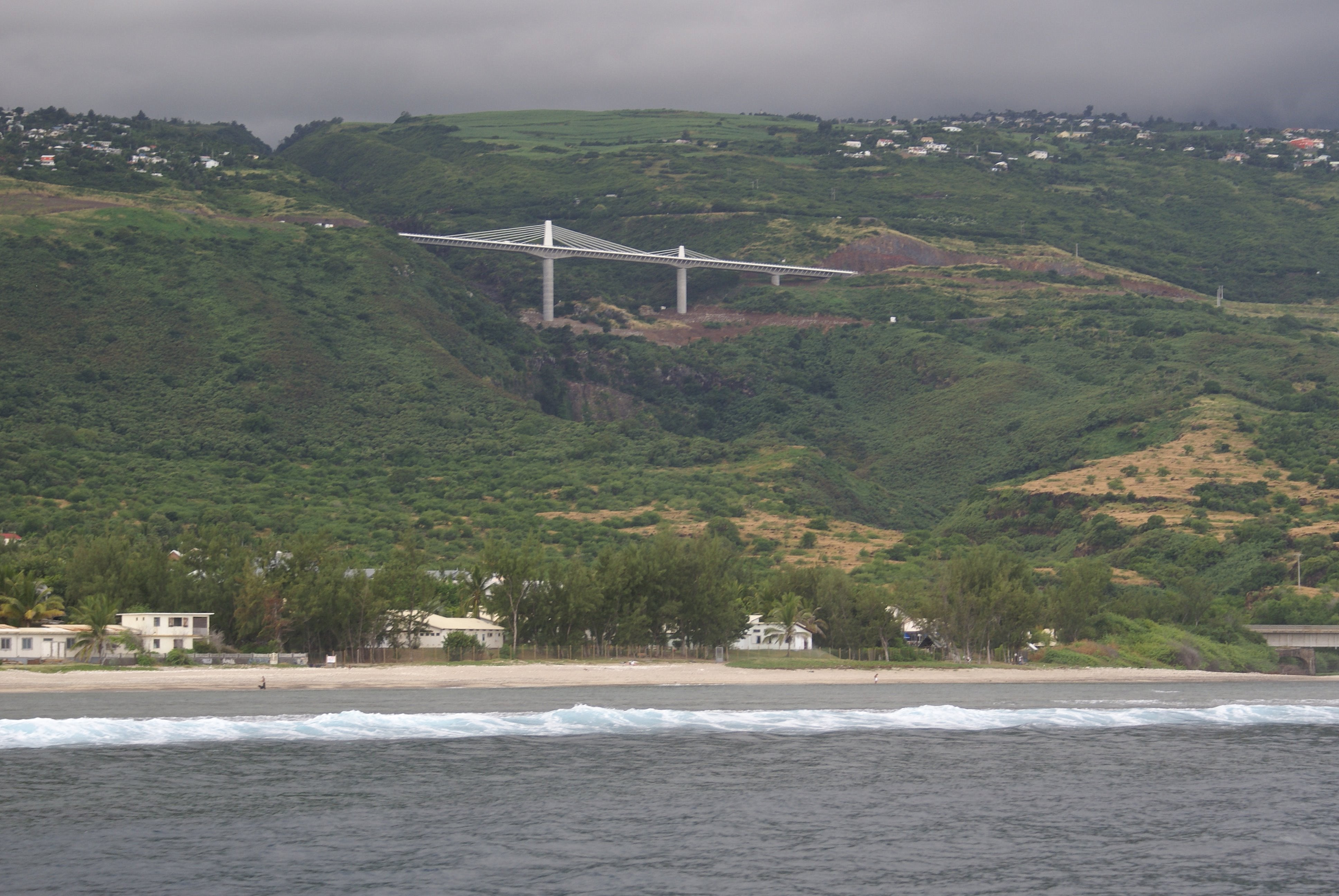 Bridge under construction over the Trois-Bassins canyon (Réunion island)